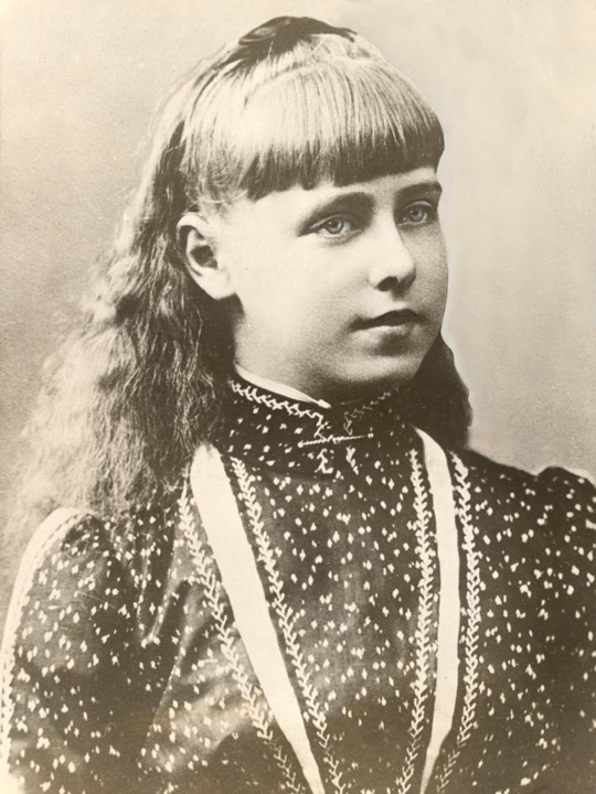 Princess Marie of Edinburgh at the age of 13.